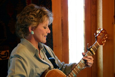 Lacy J. Dalton, American singer, in her home in Virginia City Highlands, Nevada